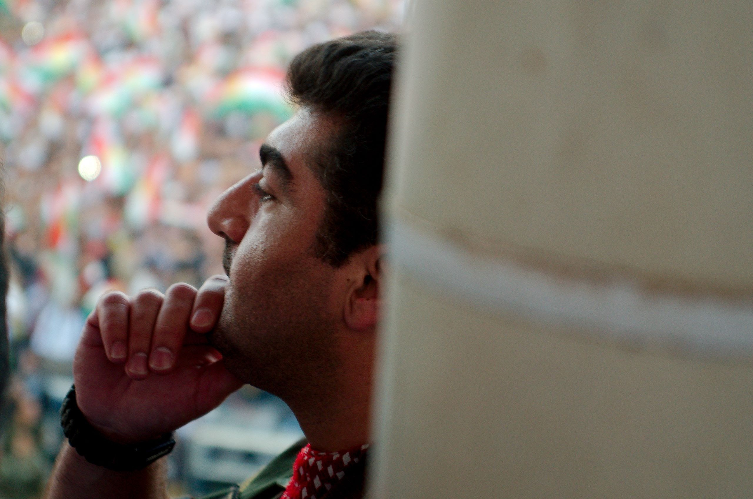 Sirwan Barzani in the VIP Area of the Erbil-Stadion at 22nd sptember 2017 at a rally for the Kurdistan Referendum